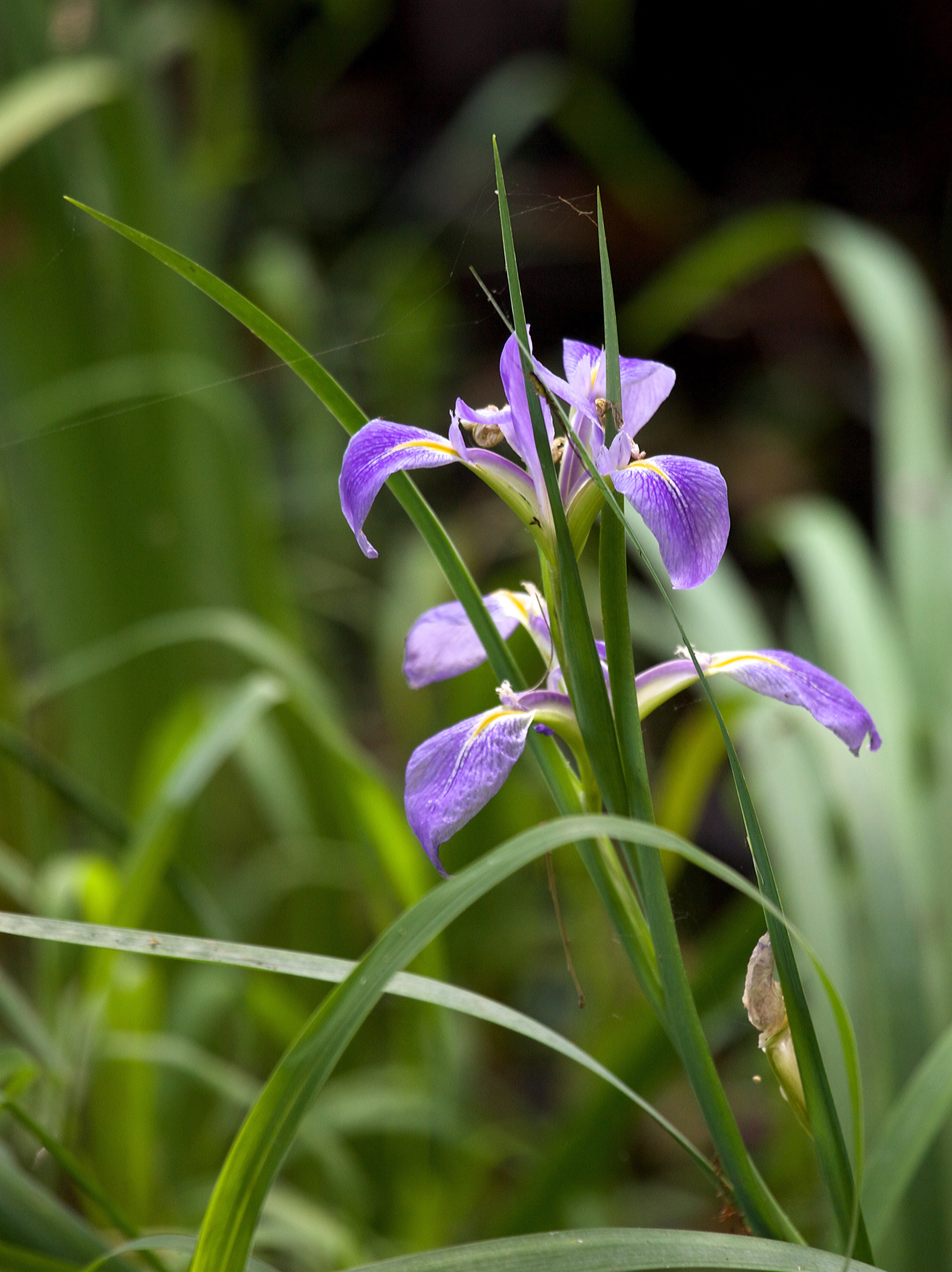 At Circle B Bar Preserve, March 15, 2015.